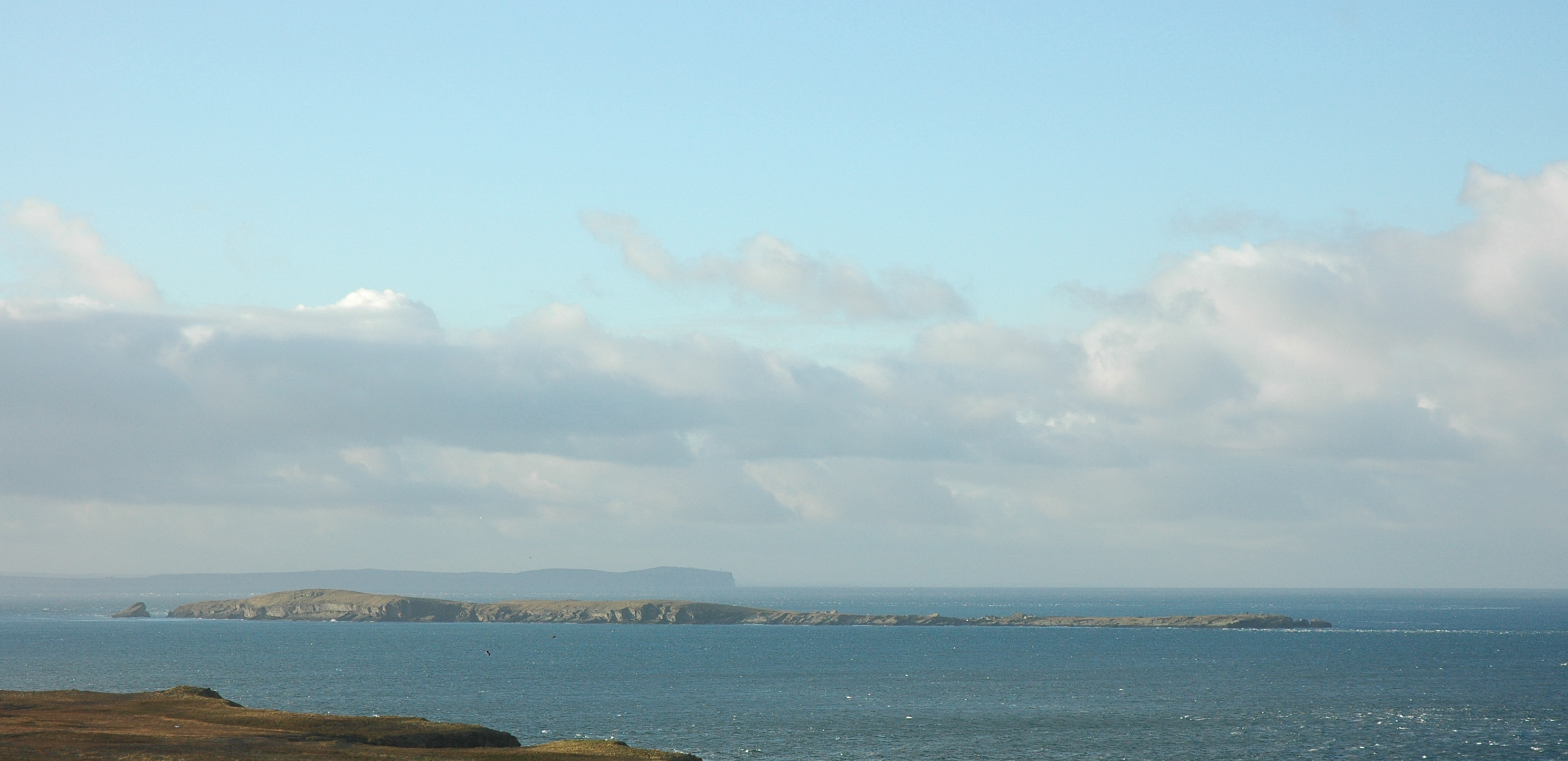 The Island of Swona, situated in the Pentland Firth. Picture by William Annal.